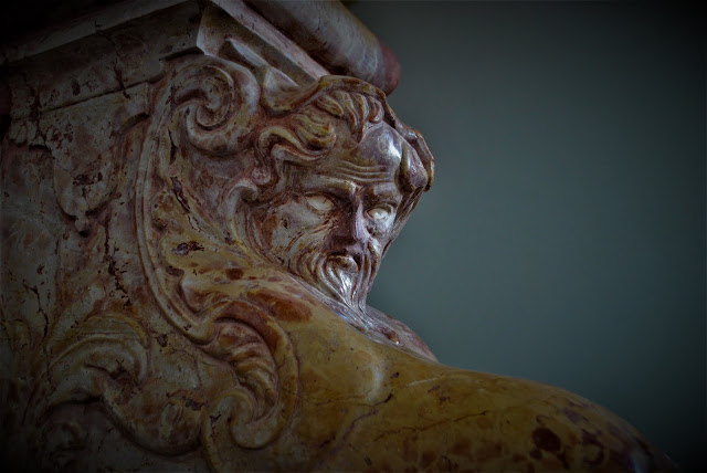 This unusual representation of a male sphinx was sculpted in the main stairs of La Merced monastery in Jerez de la Frontera between 1749 and 1750.